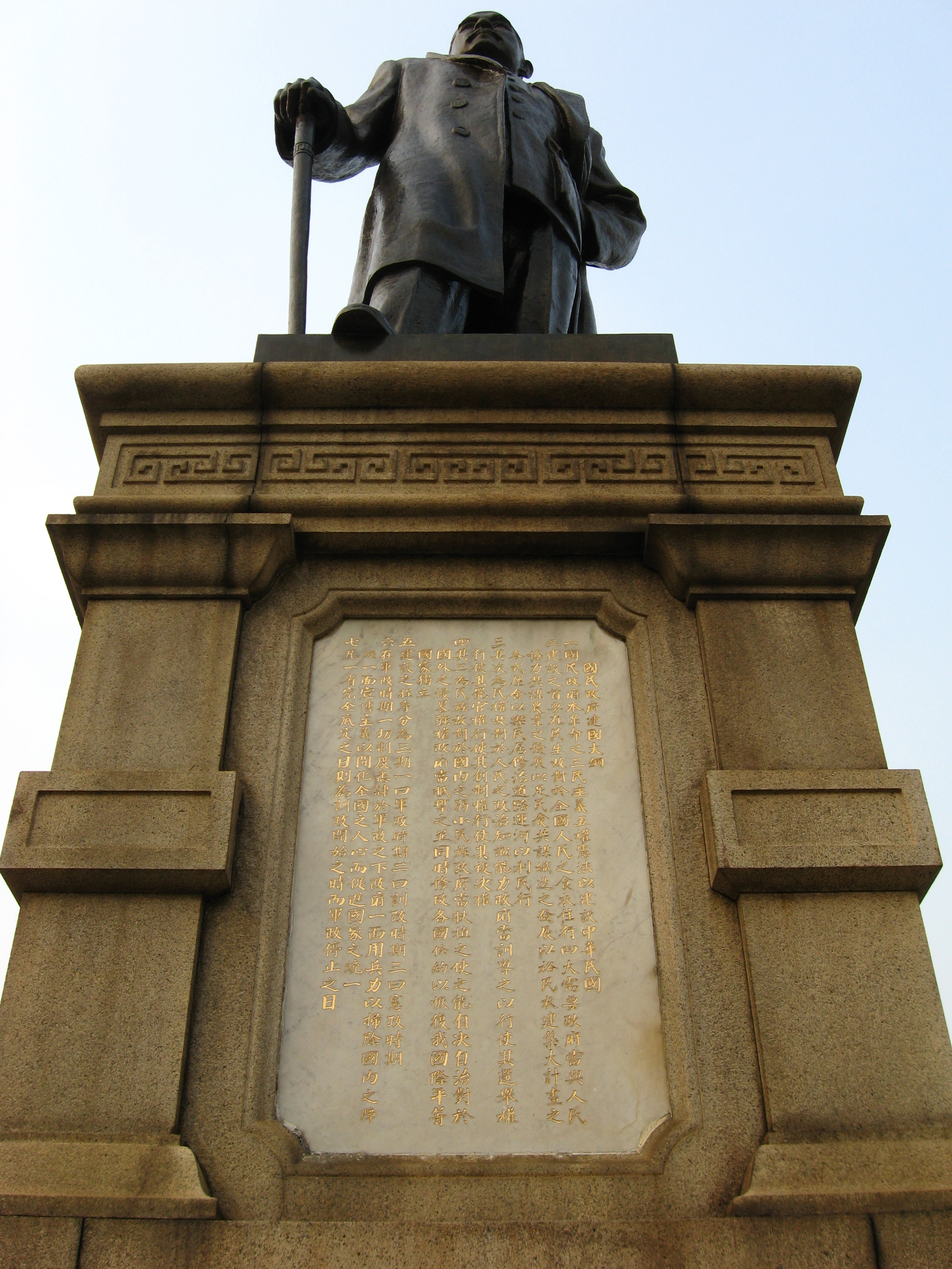 Guomin Zhengfu Jianguo Dagang